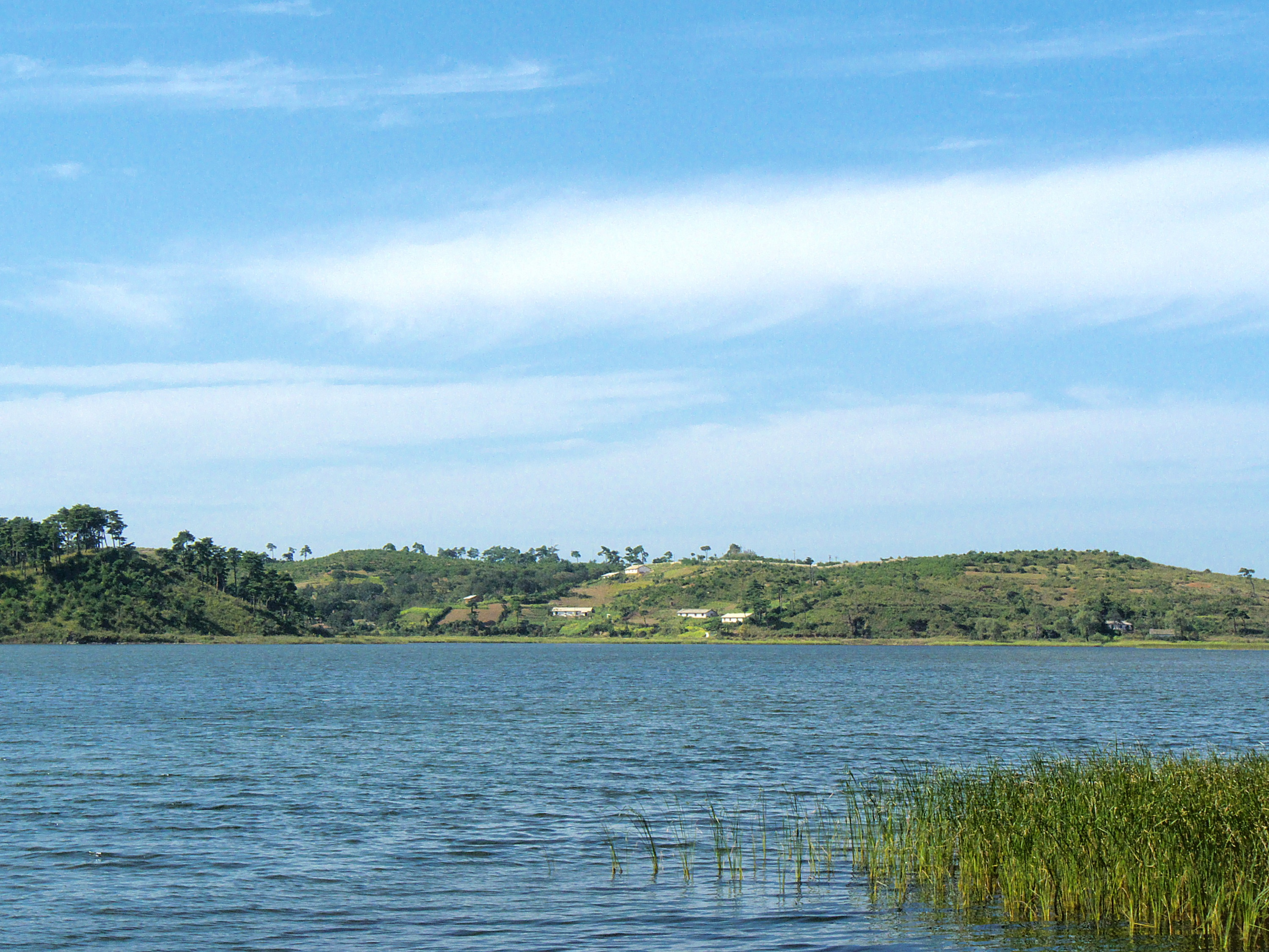 Lake Sijung, North Korea